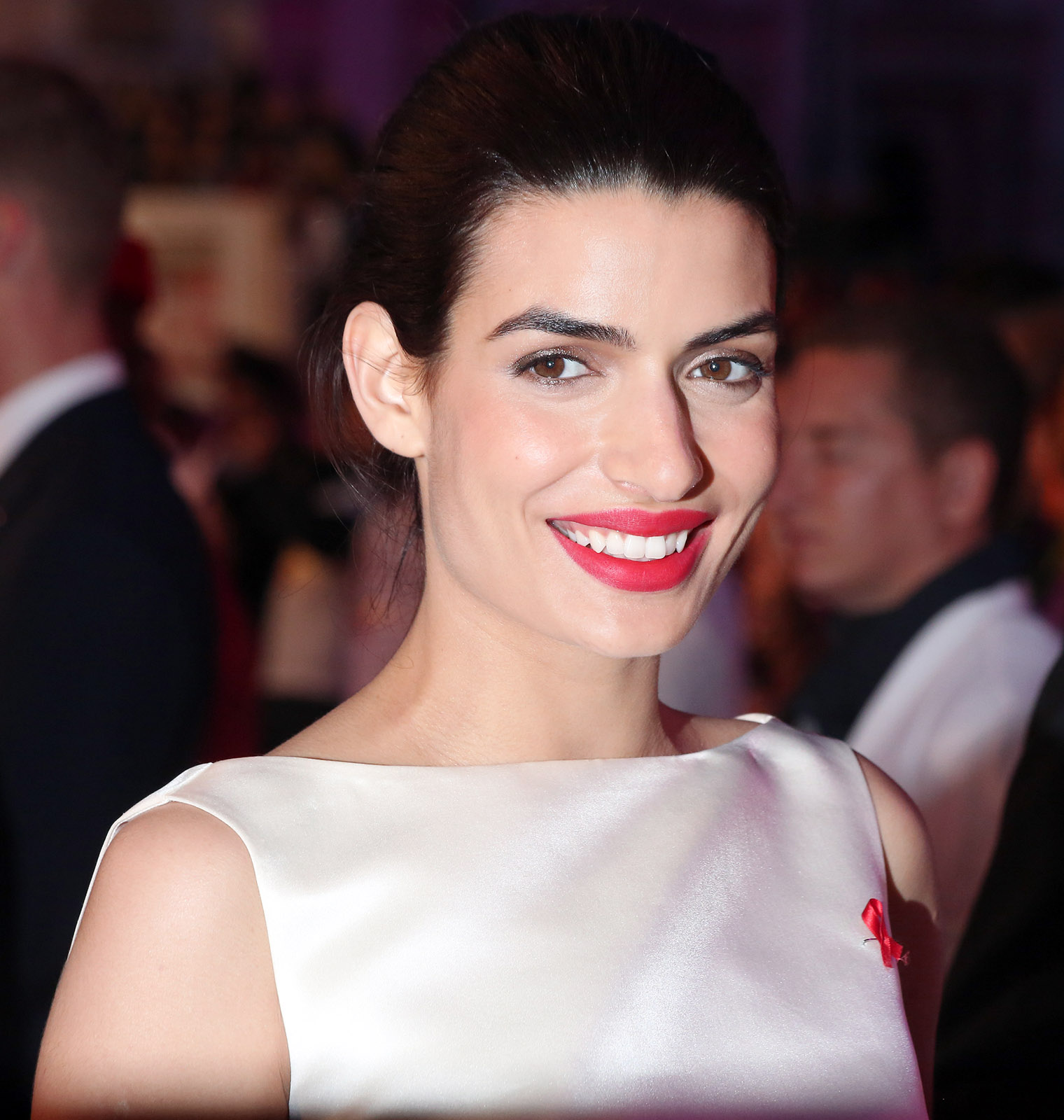 Tonia Sotiropoulou on the 'magenta carpet' at Life Ball 2013 at the square in front of the city hall of Vienna, Vienna, Austria.